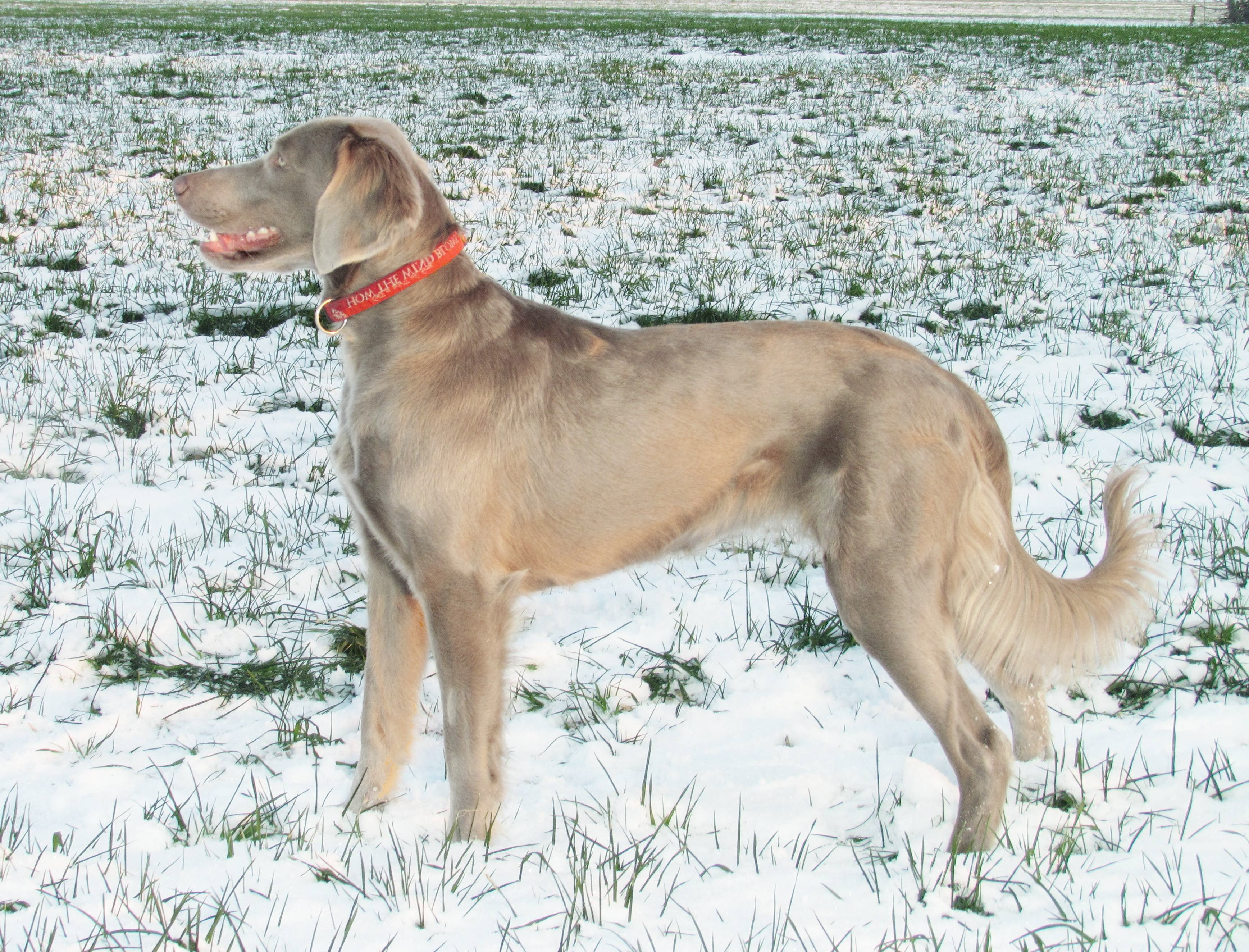 long-haired Weimaraner